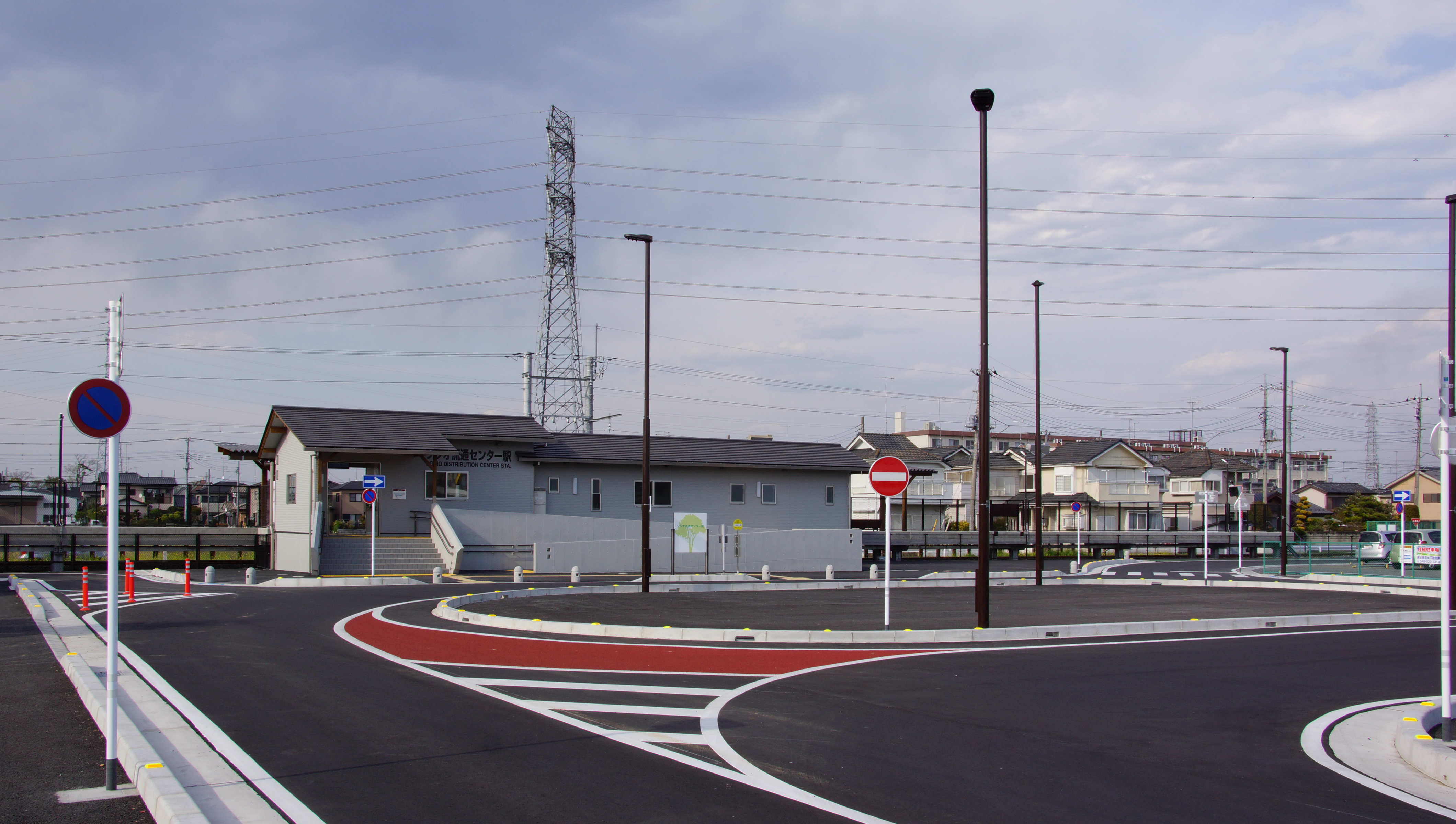 The station forecourt at Socio Distribution Center Station on the Chichibu Main Line in Saitama Prefecture, Japan